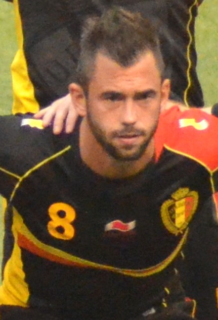 Taken at FirstEnergy Stadium Home of the Cleveland Browns